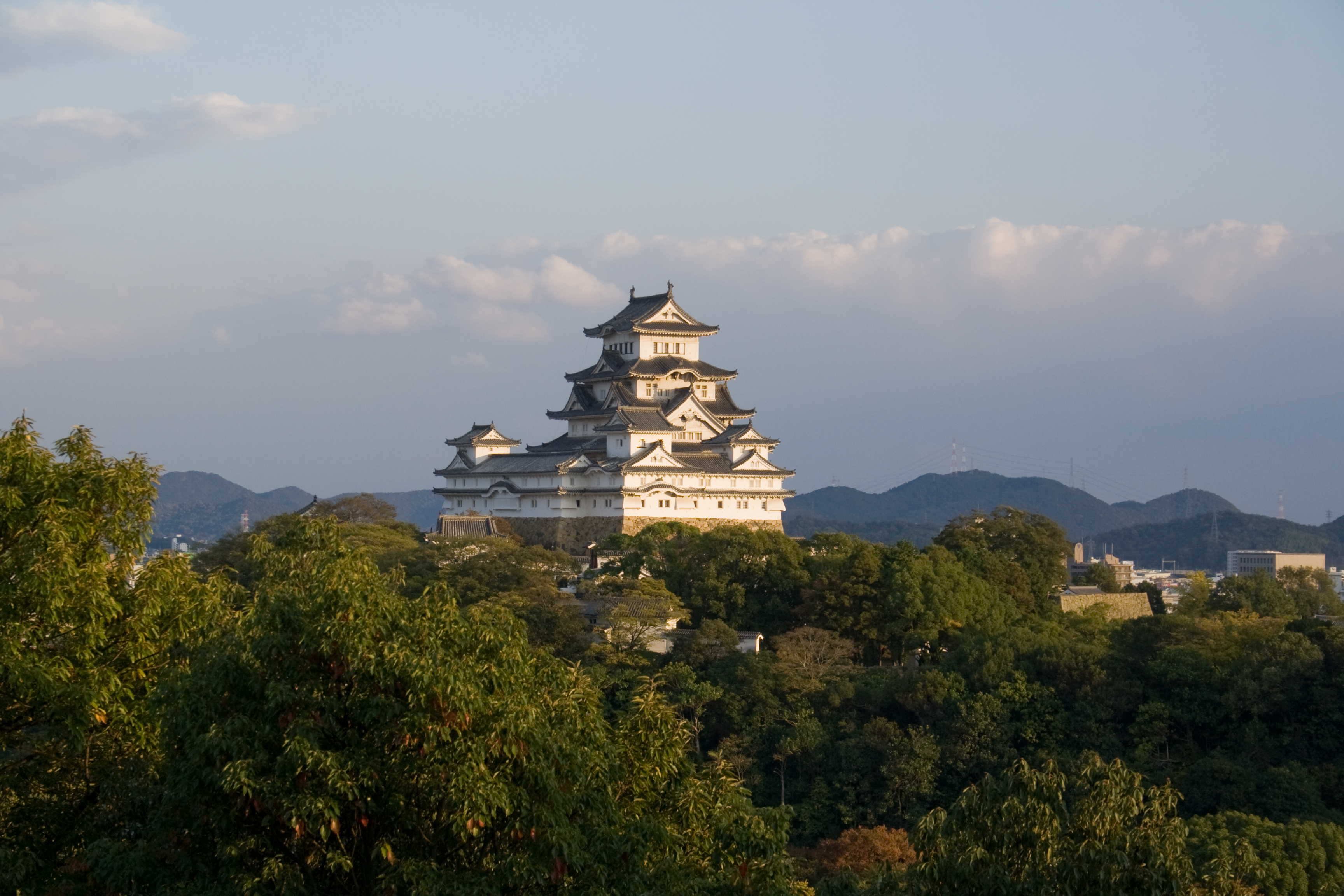 Himeji Castle seen from place that is called Jyukkei of Himeji Castle.